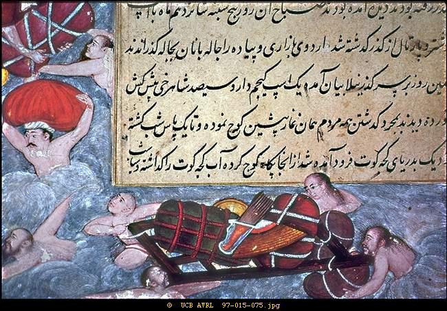 Crossing the river on a raft, from the Babur-namah schwww/sch618/Art/Art4.html (downloaded Dec. 2004)